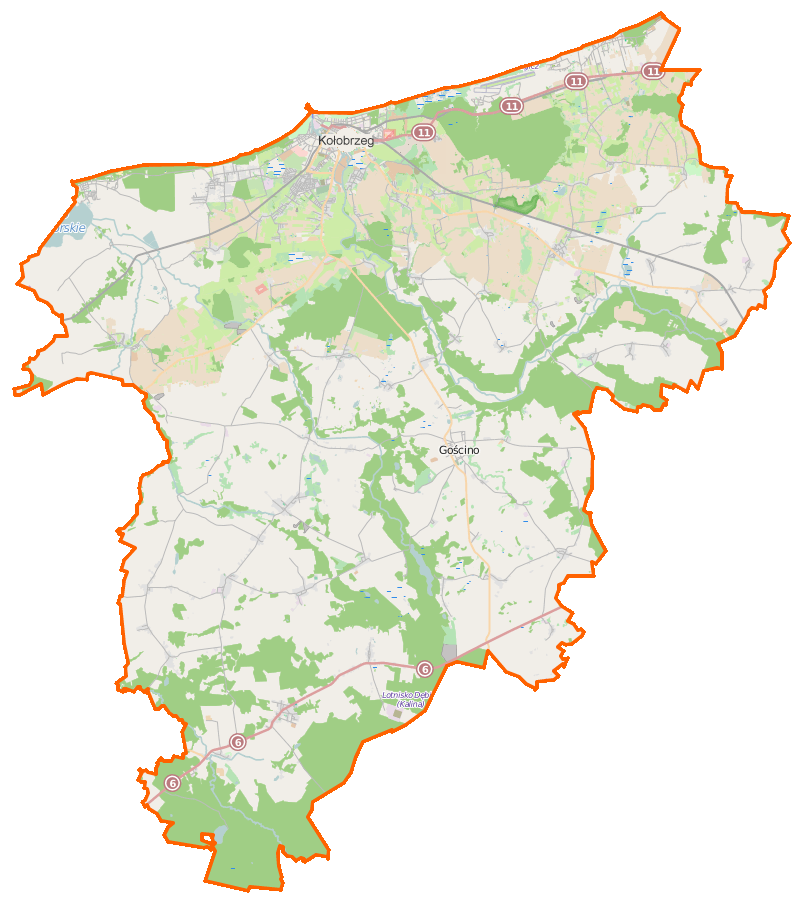 Map of Powiat kołobrzeski, Poland This map of Powiat kołobrzeski was created from OpenStreetMap project data, collected by the community. This map may be incomplete, and may contain errors. Don't rely solely on it for navigation.